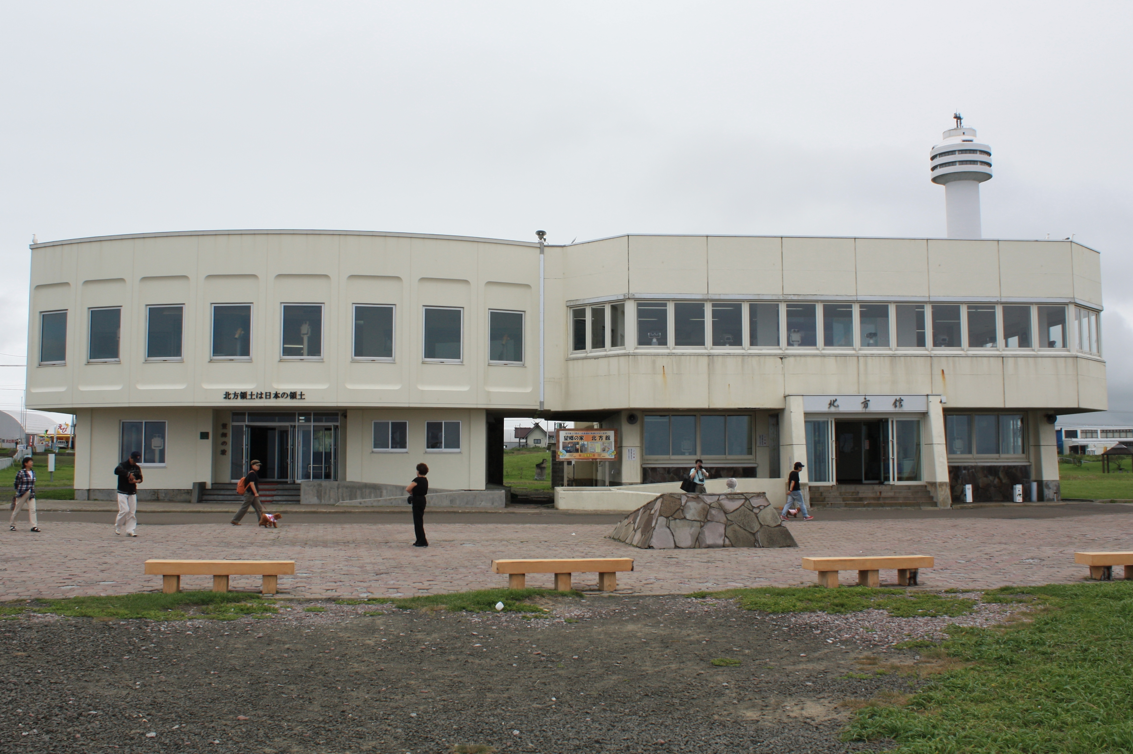 Hoppo-kan and Bokyo-no-ie (Nemuro, Hokkaidō, Japan)